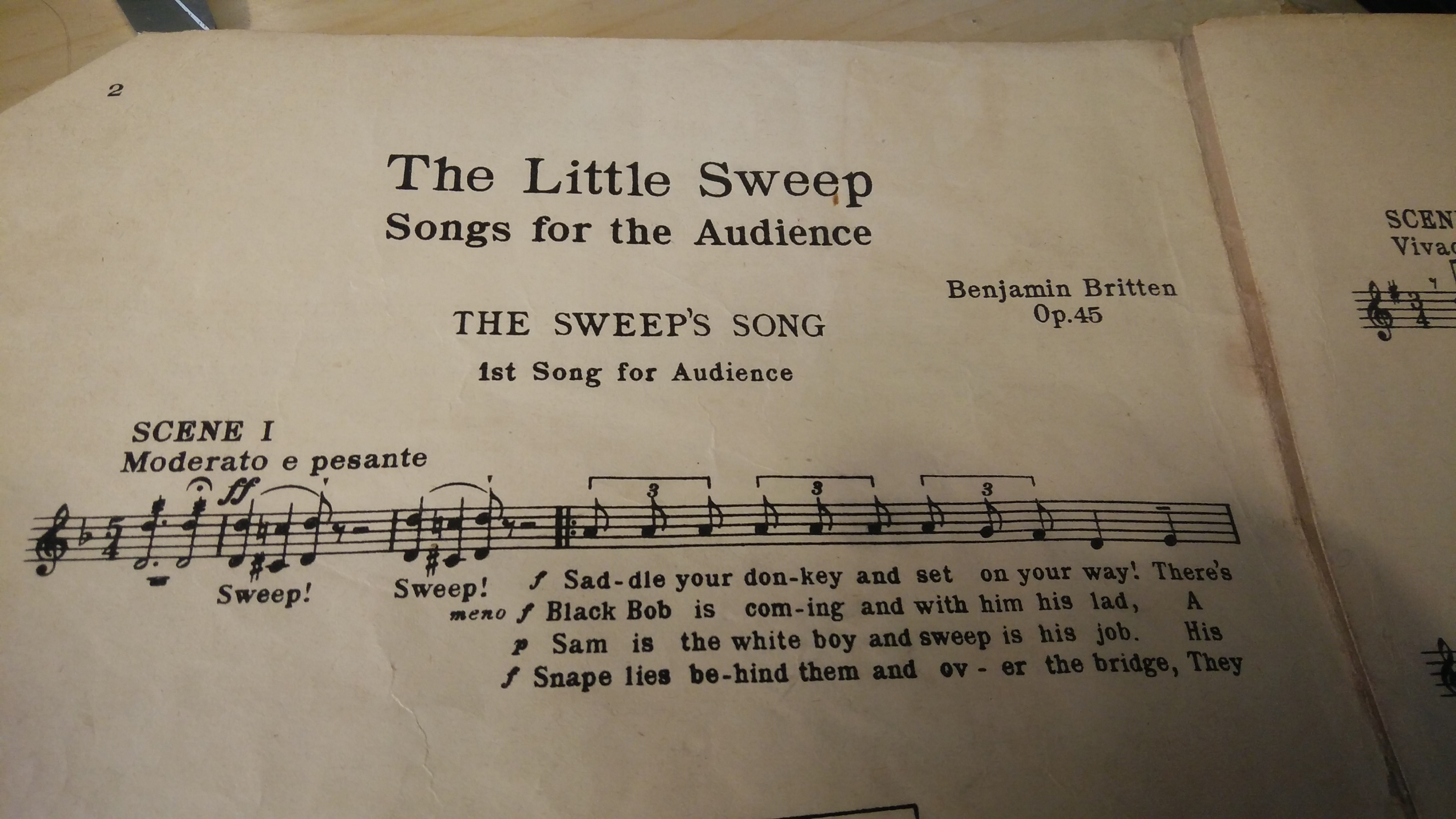 First page of the "Songs for the audience" booklet, handed to the audience in the original production of The Little Sweep.